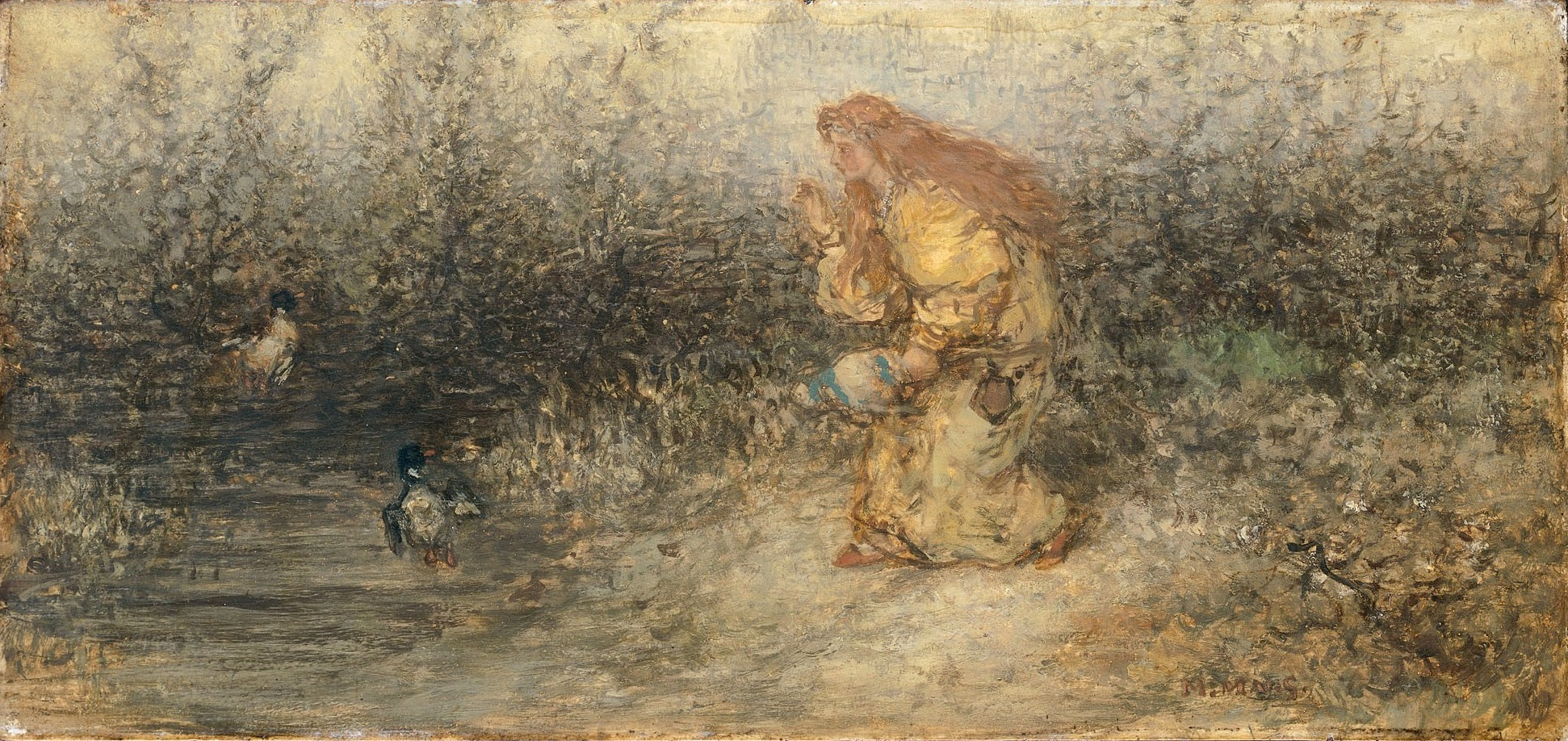 Sprookje